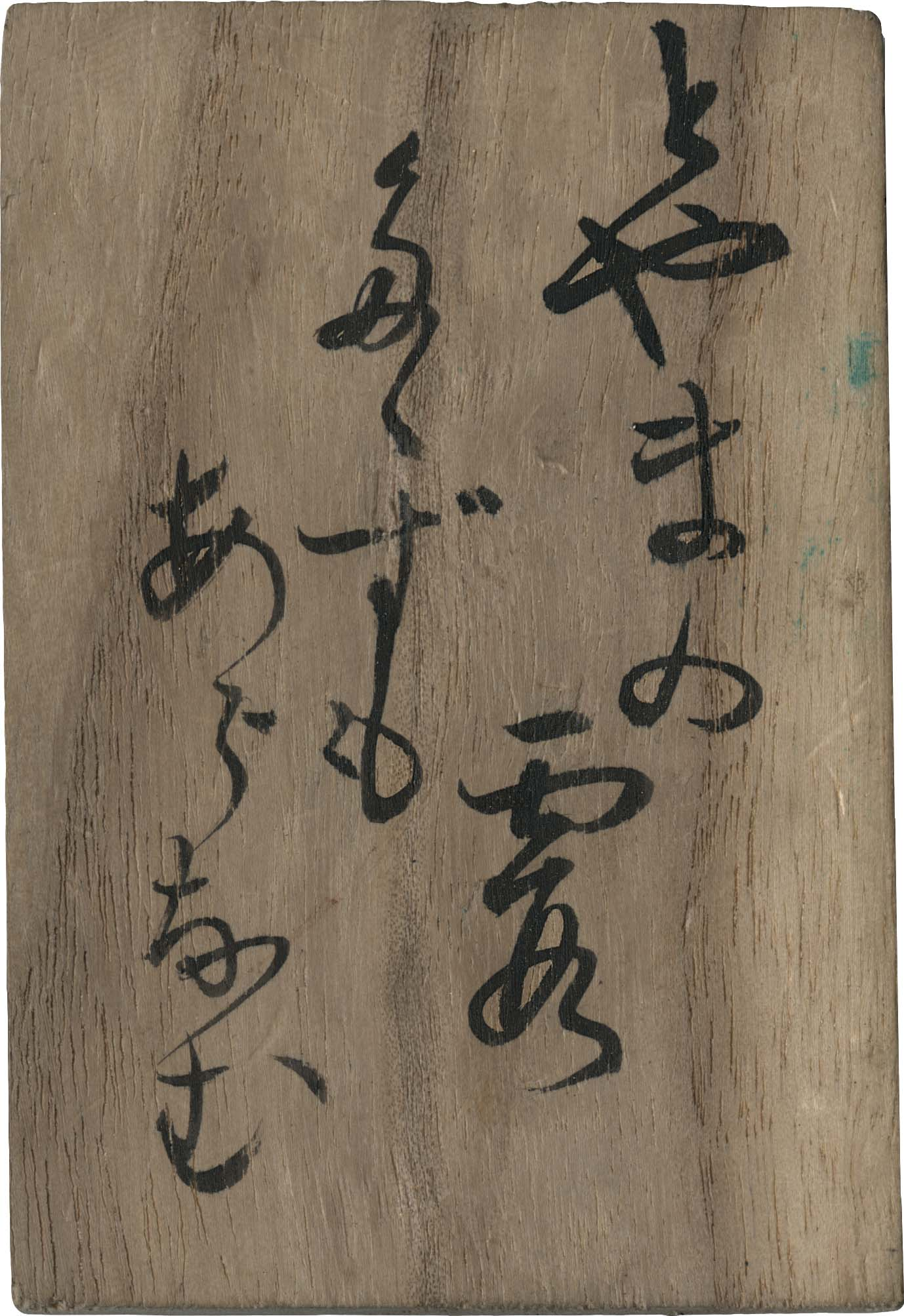 Reminder: No known copyright restrictions. Please credit UBC Library as the image source. For more information Japanese Title: [木札百人一首かるた] [板カルタ] Date: [Unknown] Creator: [Unknown] Access Identifier: Mostow_049 Source: Original Format: Professor Joshua Mostow Private Collection. One Hundred Poets (Hyakunin isshu) Collection. Permanent URL